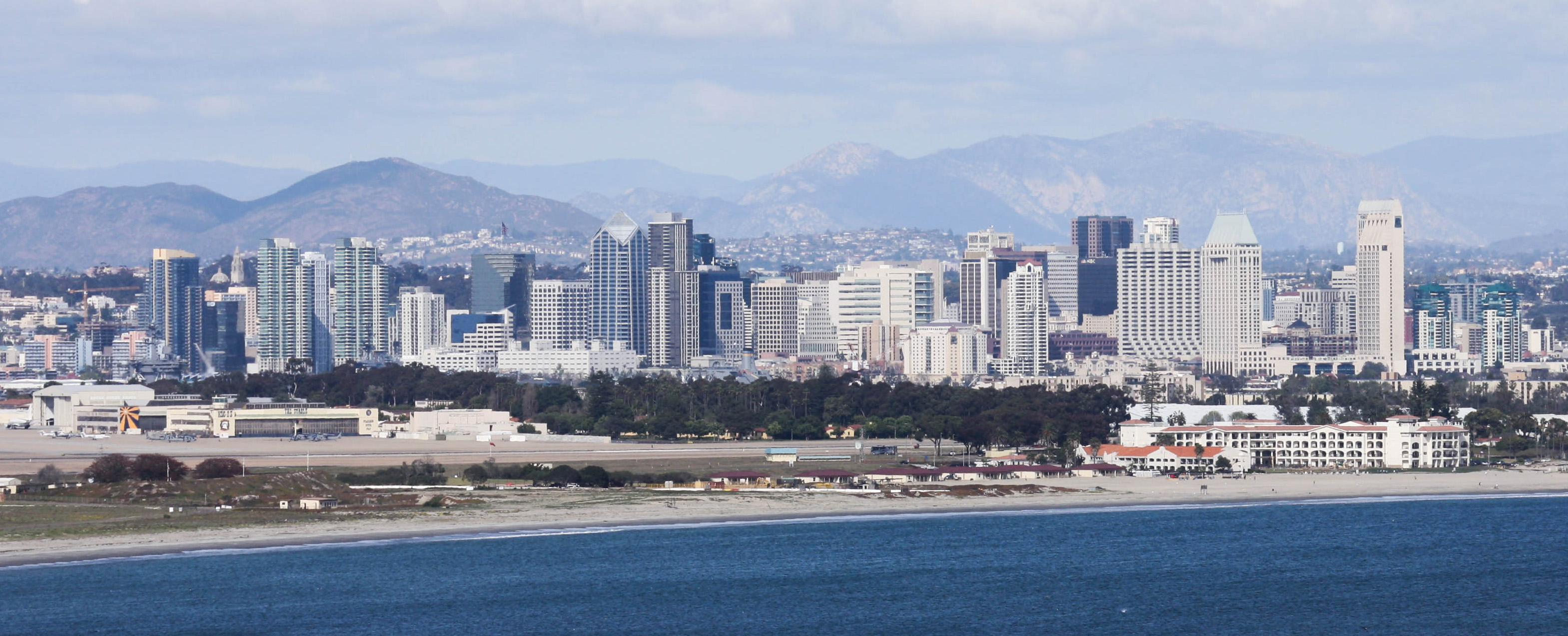 Downtown San Diego seen from Cabrillo National Monument, California